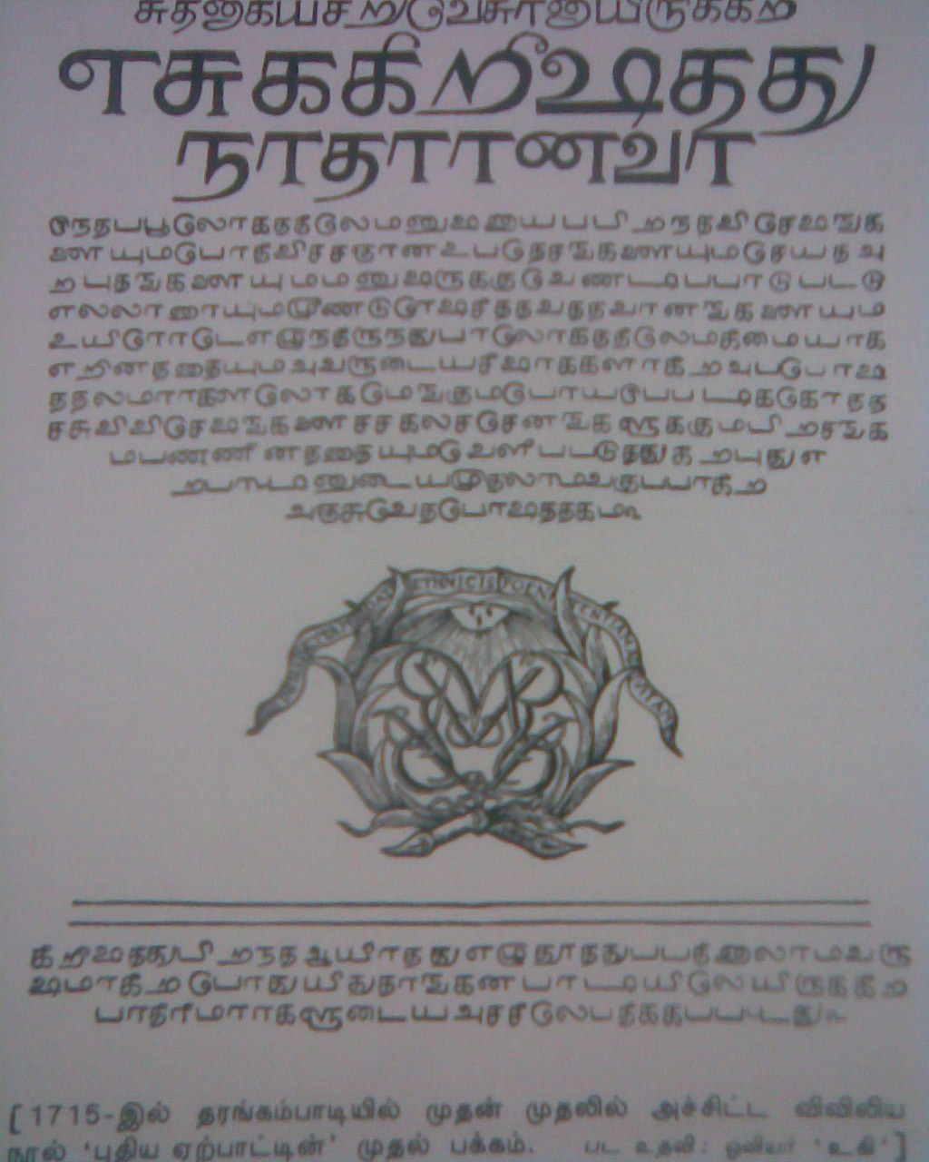 This Tamil bible is translated, published in Tamil in 1715.